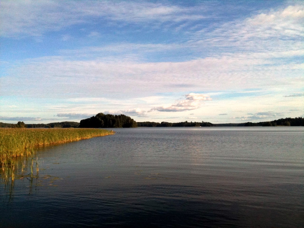 Sparreholm pond in Sweden